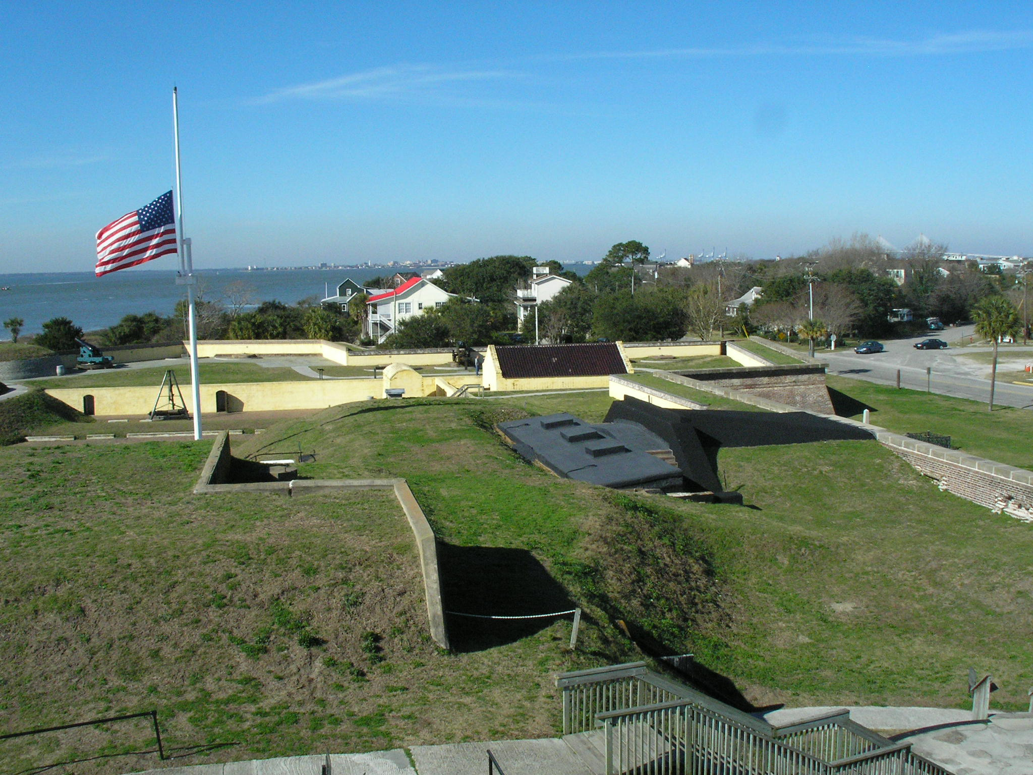 The Fort Moultrie National Monument on Sullivan's Island, South Carolina. The US flag is at half-staff due to the former US President's, Gerald R. Ford's death.